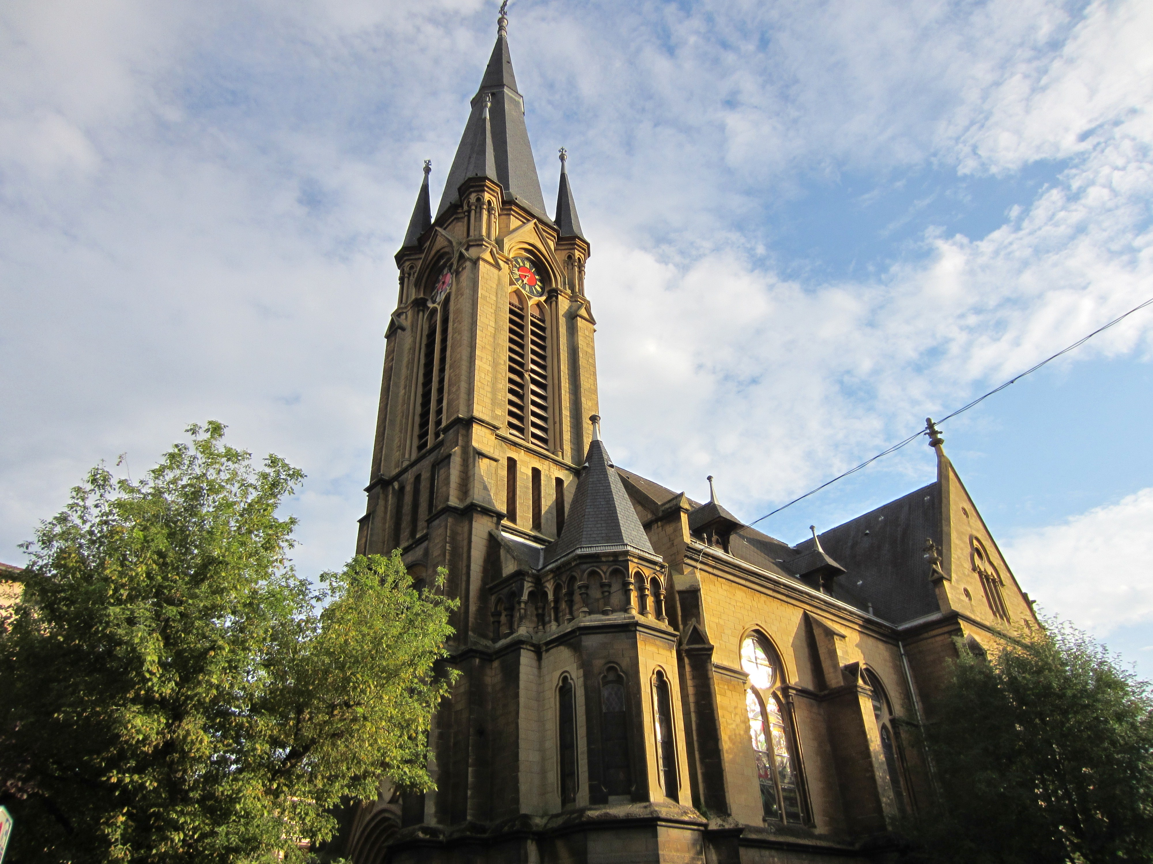 Description temple Montigny Metz Date2 September 2011Sourcemon appareil photoAuthorAimelaimePermission (Reusing this file) temple Montigny Metz